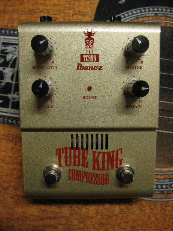 Ibanez TC999 -tube compressor for guitar